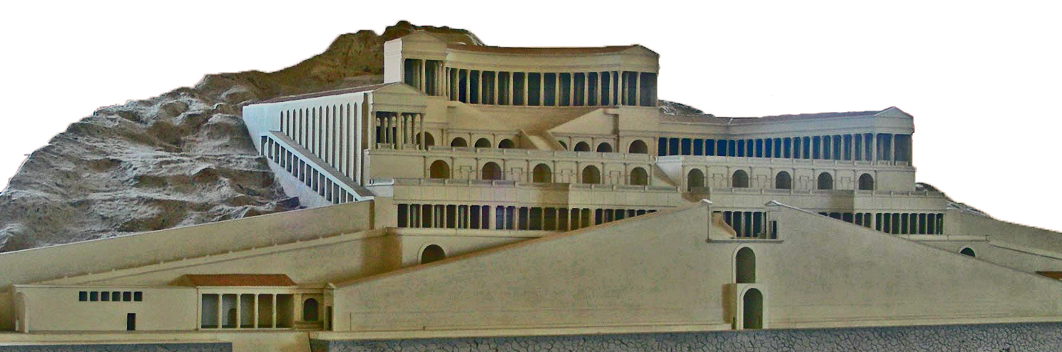 Italy, Latium, Palestrina, Museo archeologico prenestino, reconstruction of sancturary of Fortuna Primigenia